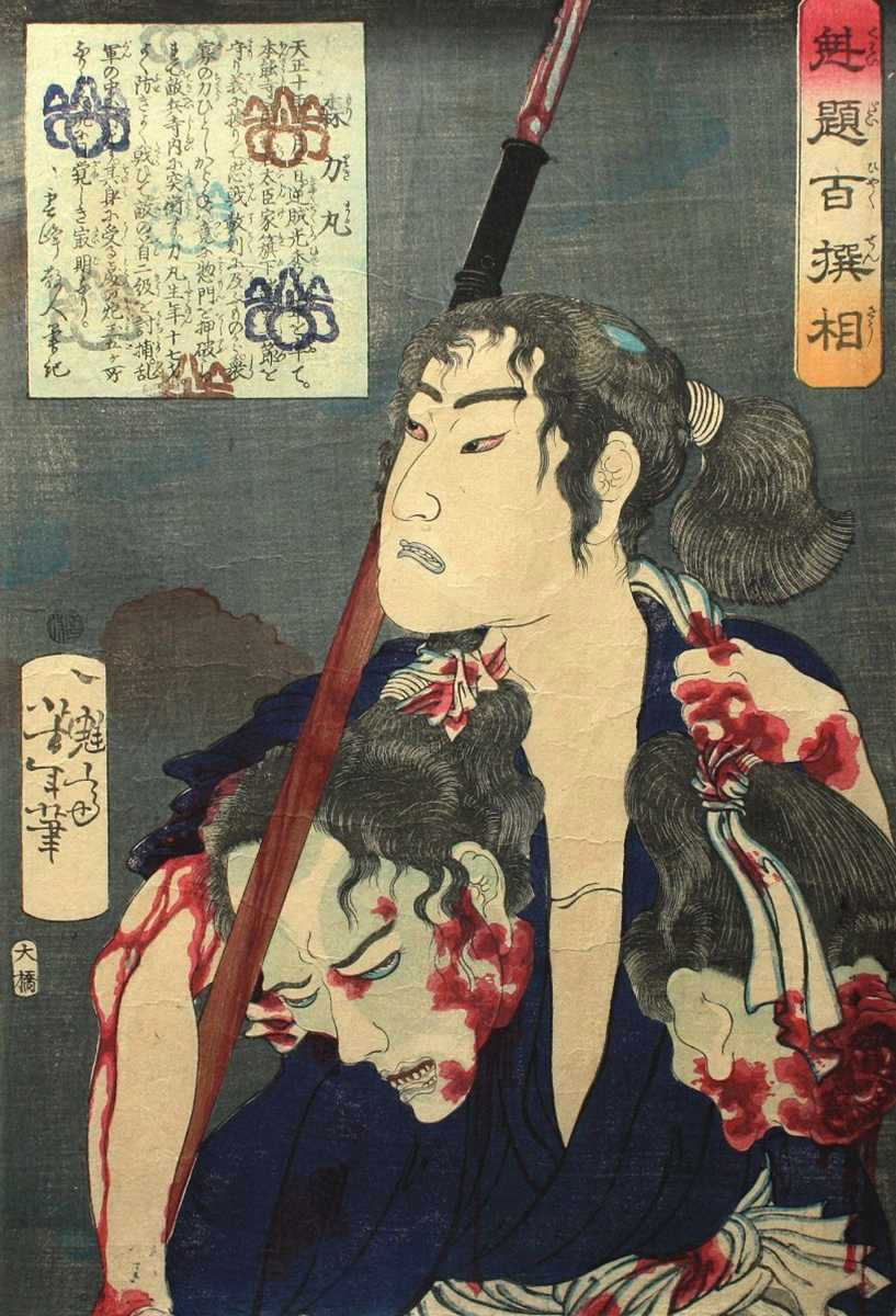 A ukiyo-e of Mori Rikimaru who was a brother of Mori Ranmaru.